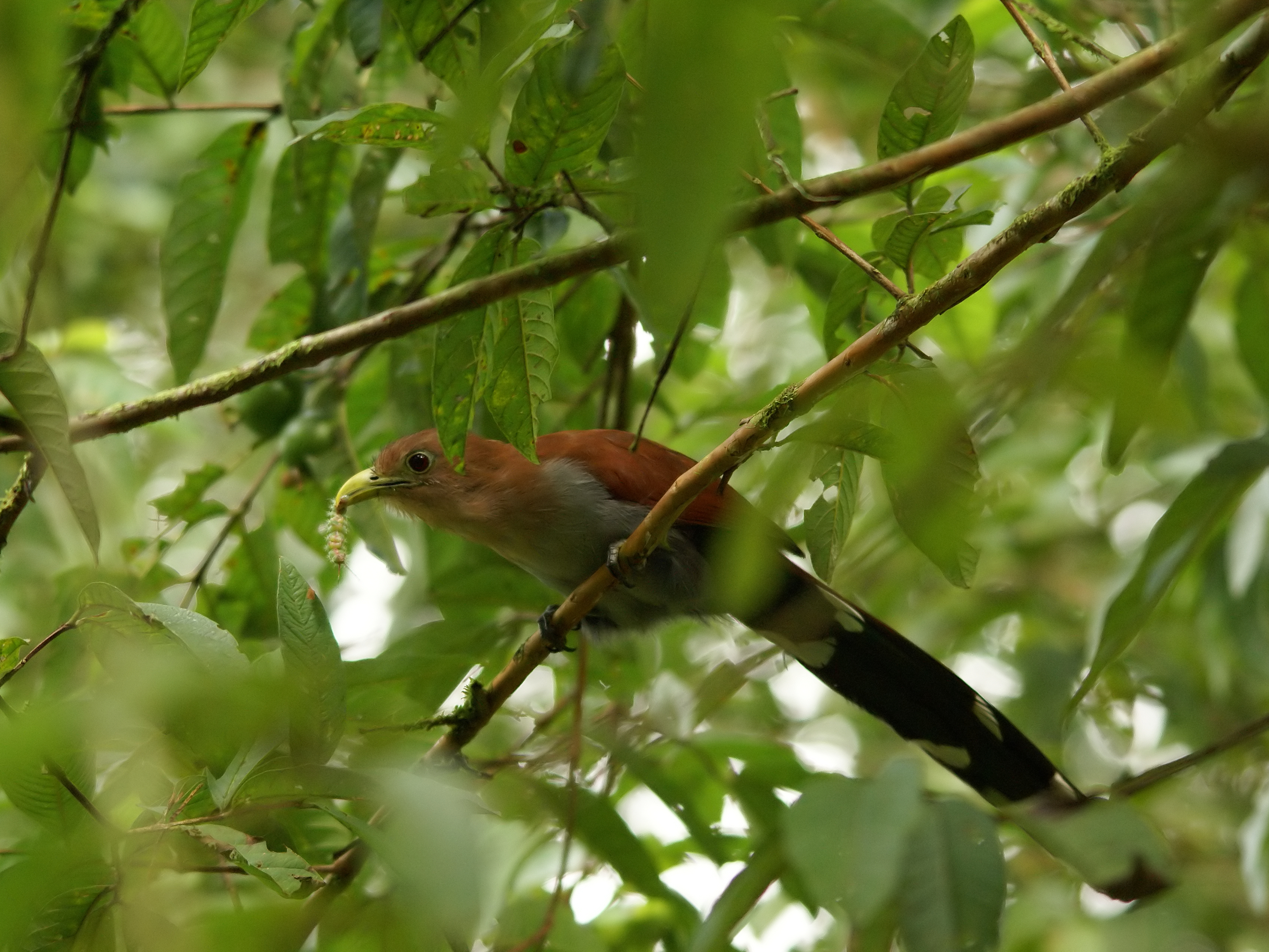 Squirrel Cuckoo at Puentes Colgantes, Arenal, Costa Rica